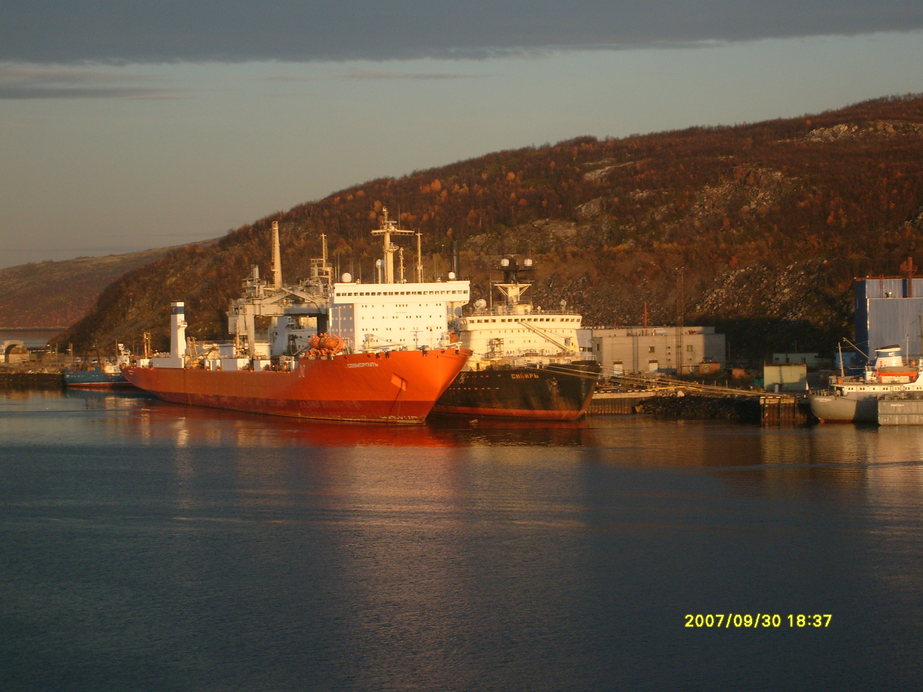 Russian nuclear-powered cargo ship Sevmorput (l.) and the discarded nuclear-powered Arktika class icebreaker NS Sibir (r.).